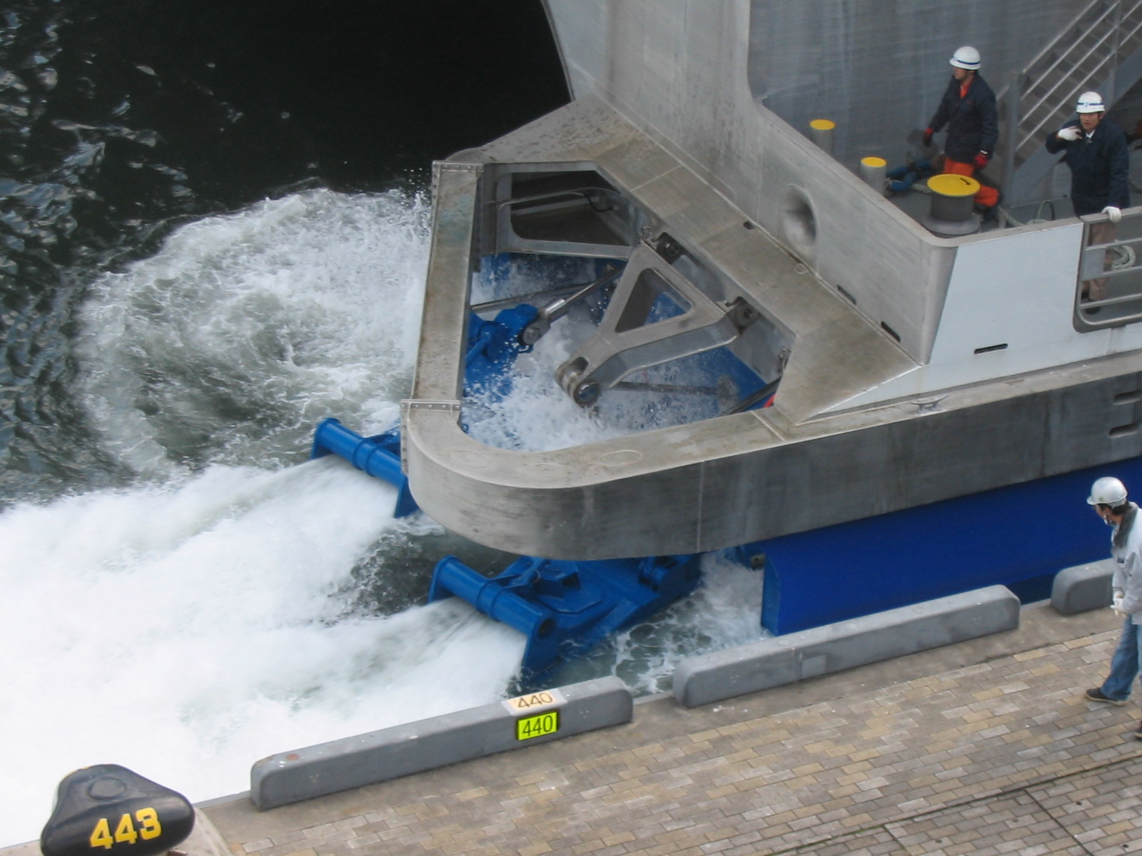 Pump-jet on High speed car ferry "Natchan World" when the ship leaving the quay. at OSANBASHI YOKOHAMA INTERNATIONAL PASSENGER TERMINAL. Yokohama City,Kanagawa Pref,Japan. March,7,2009